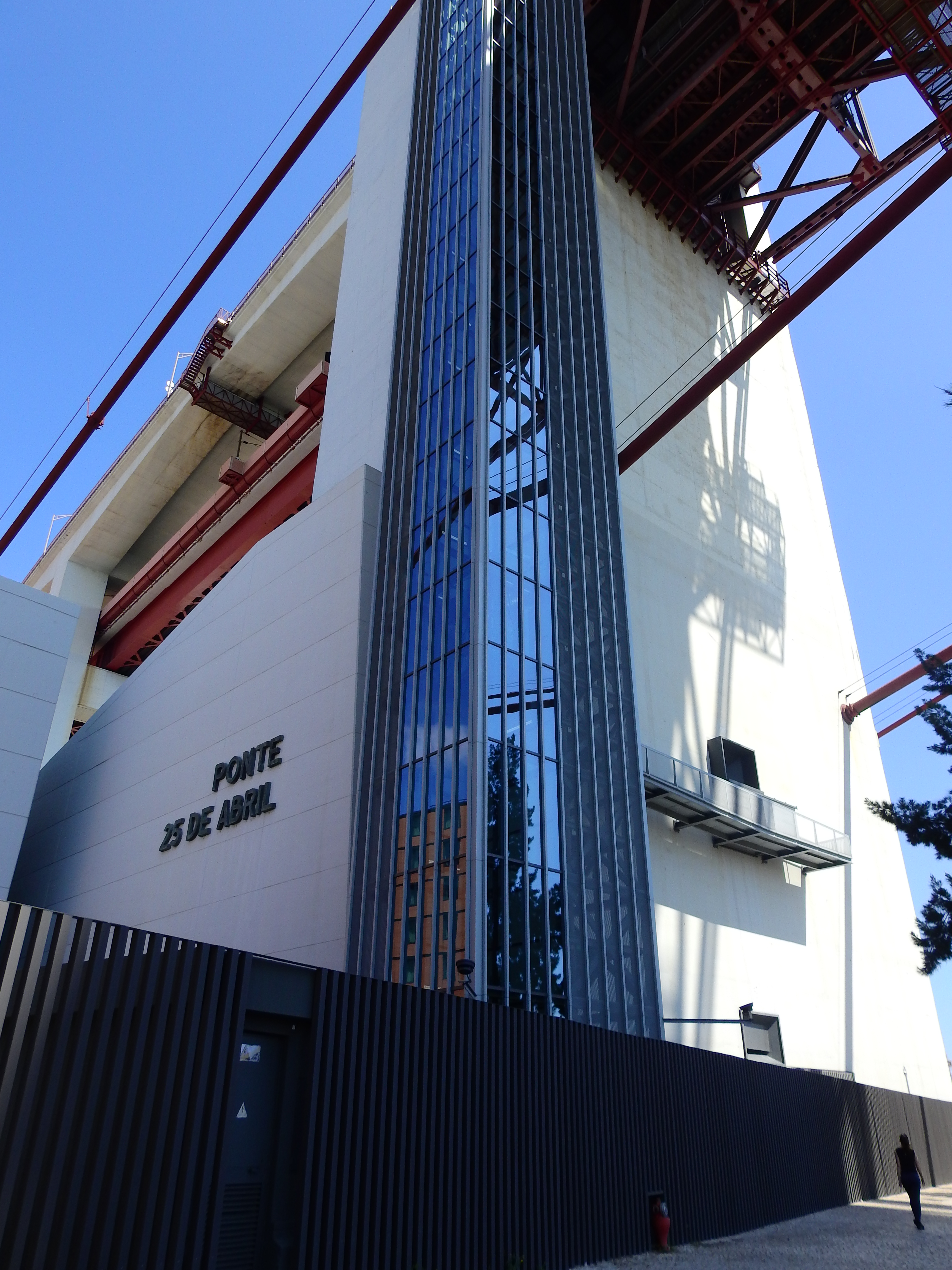 Ponte 25 de Abril (25th of April Bridge) in Lisbon, Portugal.